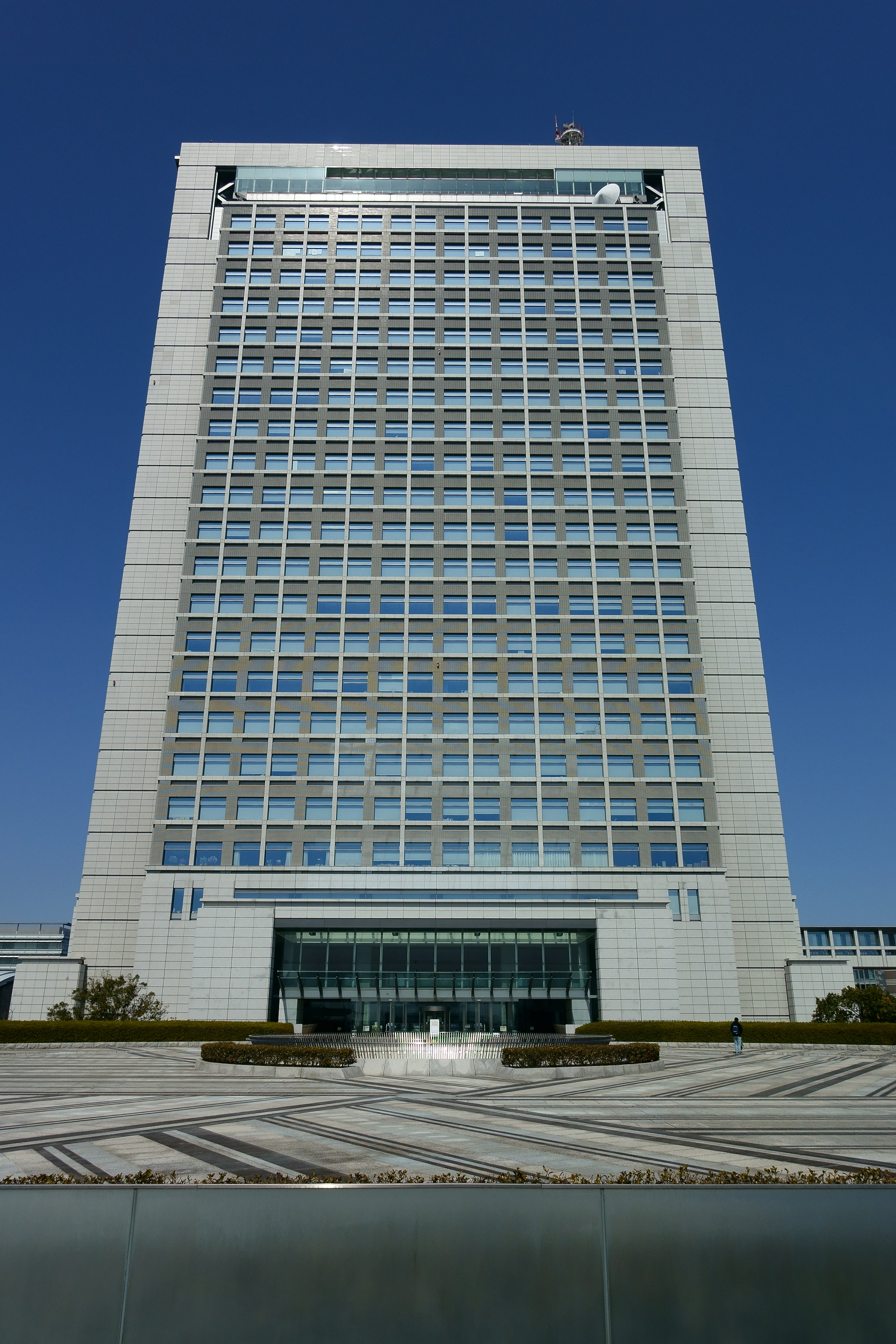 Ibaraki Prefectural Office, Mito, Ibaraki, Japan.